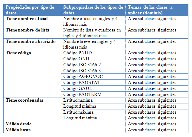 dataype